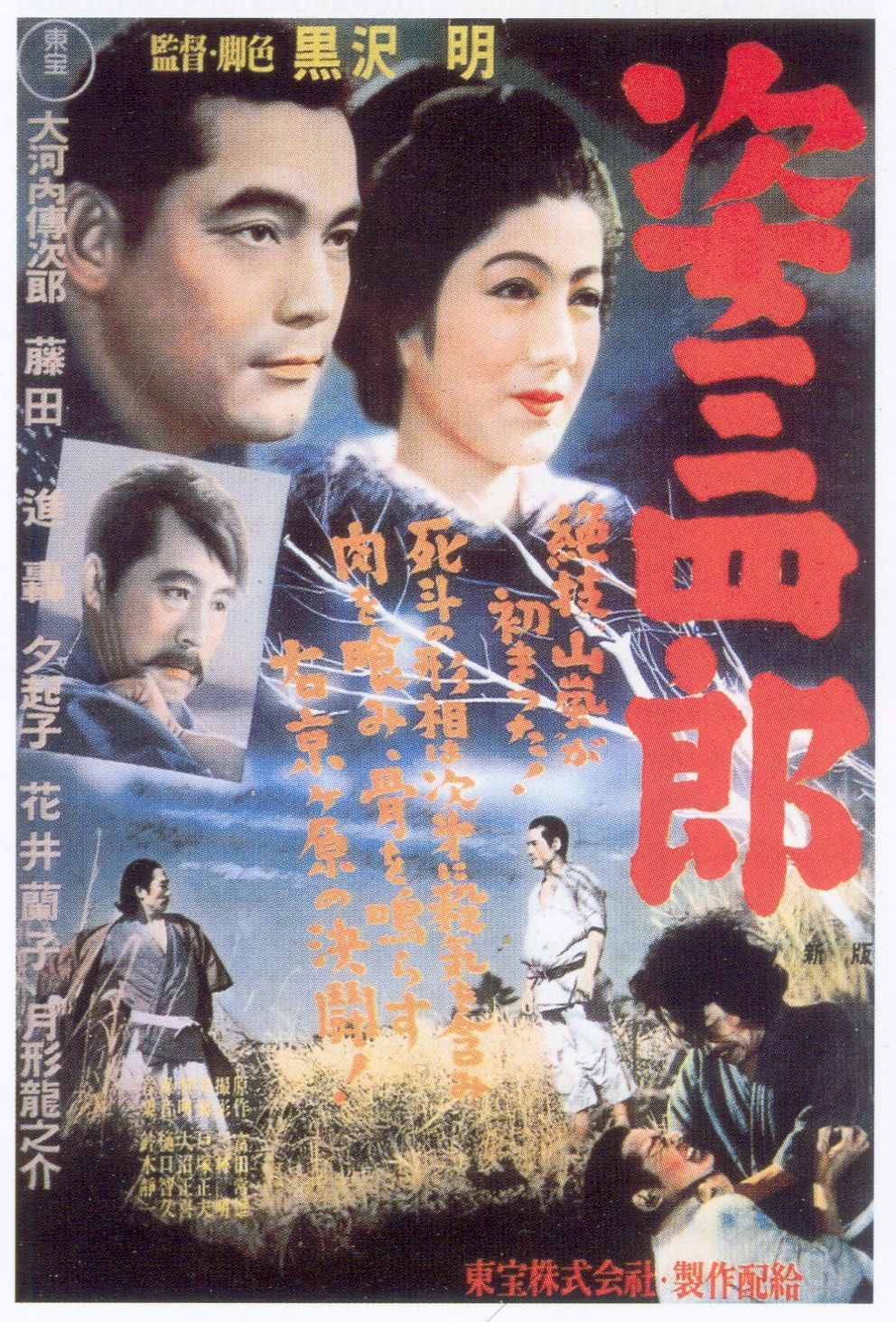 Movie poster for the revival of 1943 Japanese movie Sugata Sanshiro in 1952.